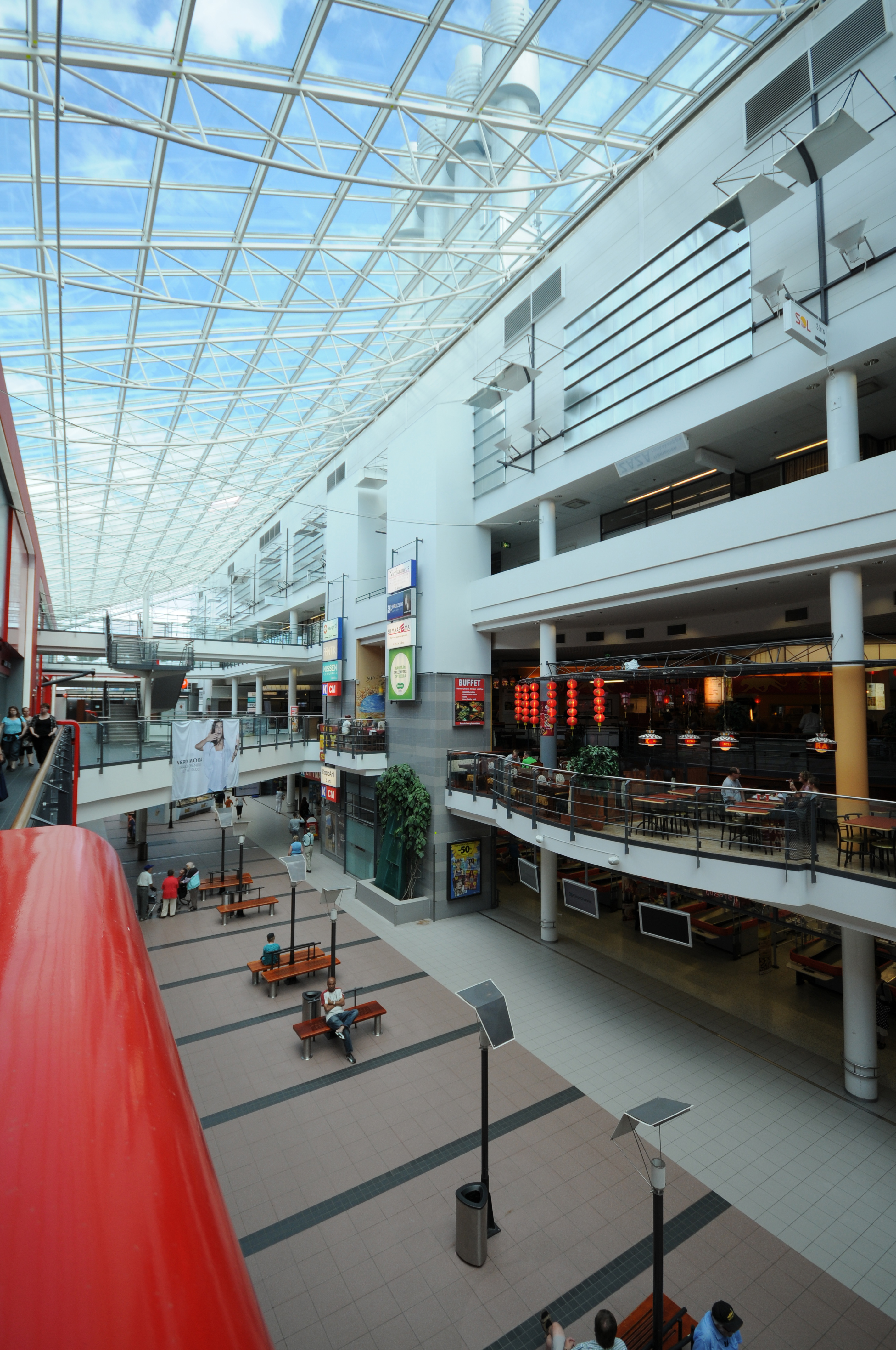 Interior of Myyrmanni shopping centre in Vantaa, Finland.